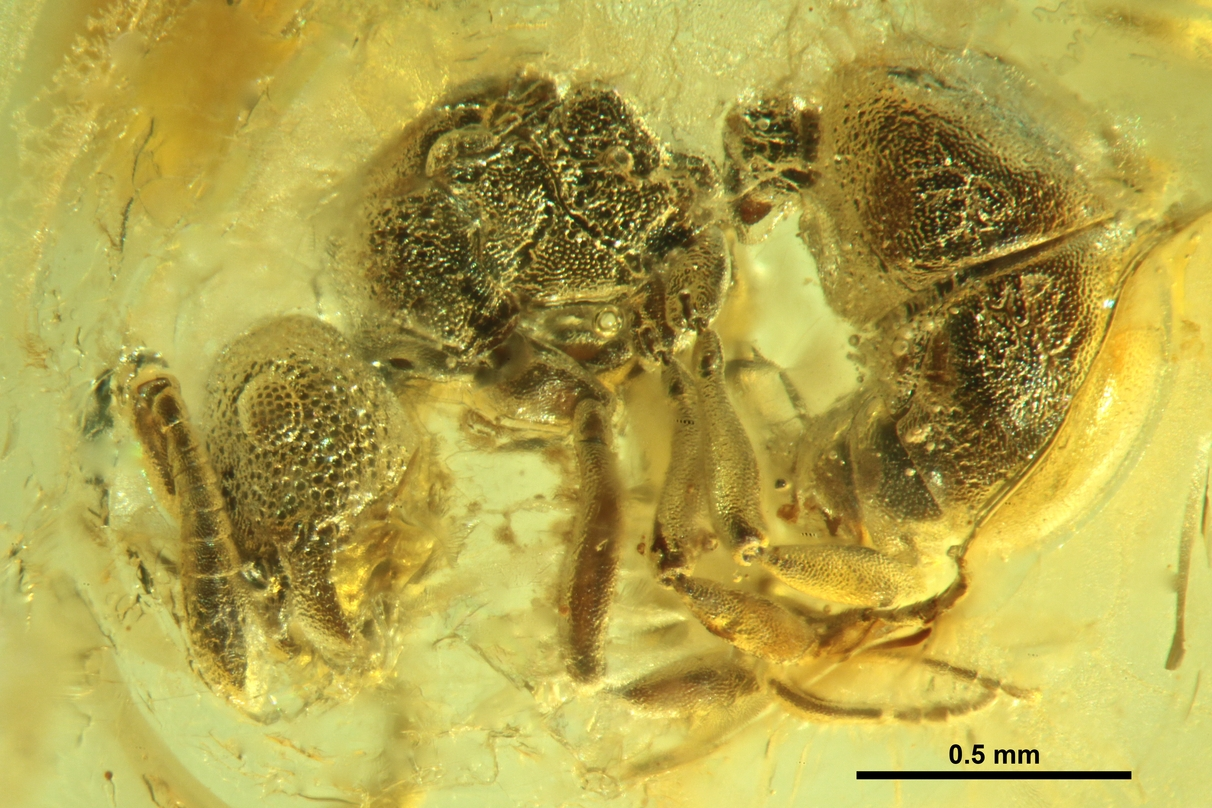 Profile view of the Bradoponera wunderlichi" holotype worker. Specimen SMFBE524; Senckenberg Museum, Germany Baltic Amber, Middle Eocene; Samland Peninsula?, Baltic Region, Europe.